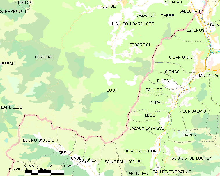 Map of French municipality